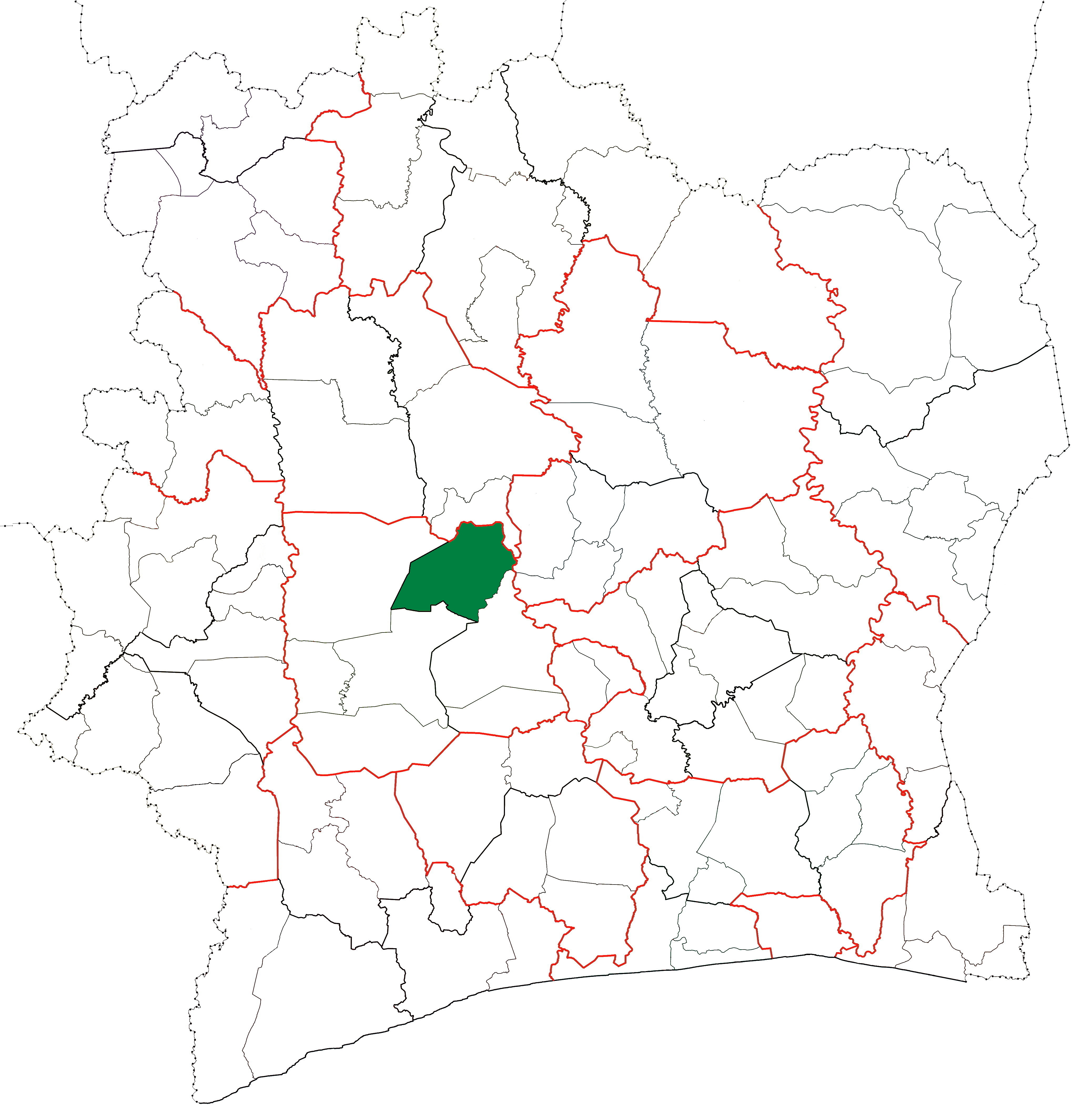 Locator map for Zouénoula Department in Côte d'Ivoire.